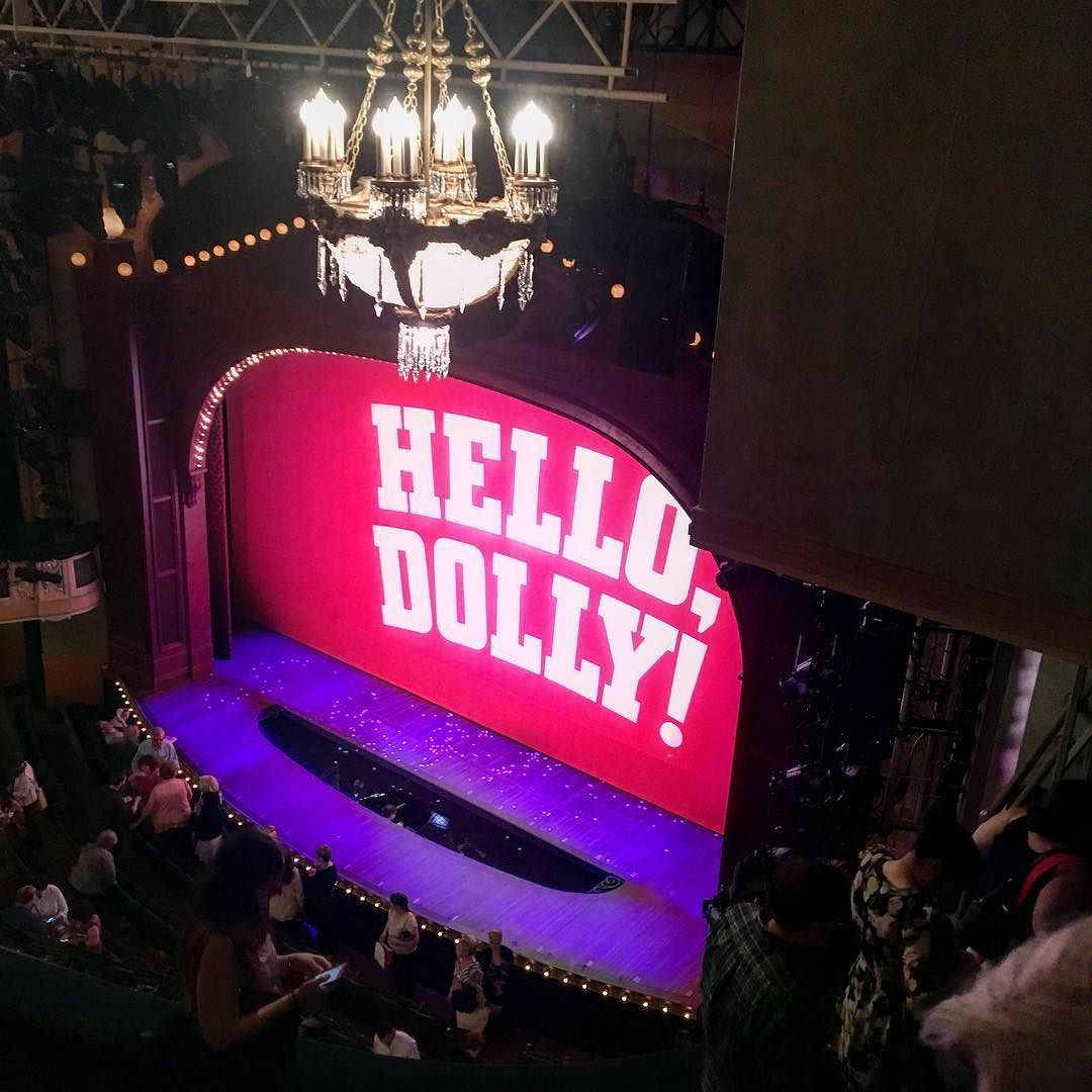 Hello Dolly! at the Shubert Theatre, New York City